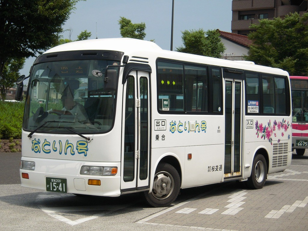 Sakura kotsu (Sendai branch) Hino Liesse(KC-RX4JFAA)for "Natorin-go"(Natori city community bus)